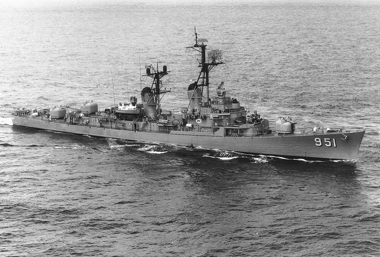 The U.S. Navy destroyer USS Turner Joy (DD-951) underway at sea on 9 May 1964.